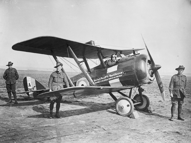 A posed photograph of de Havilland DH 5 Scout plane of 68 Squadron, Royal Flying Corps (renumbered as No 2 Squadron, Australian Flying Corps from 19 January 1918) at an aerodrome in Lincolnshire, England.